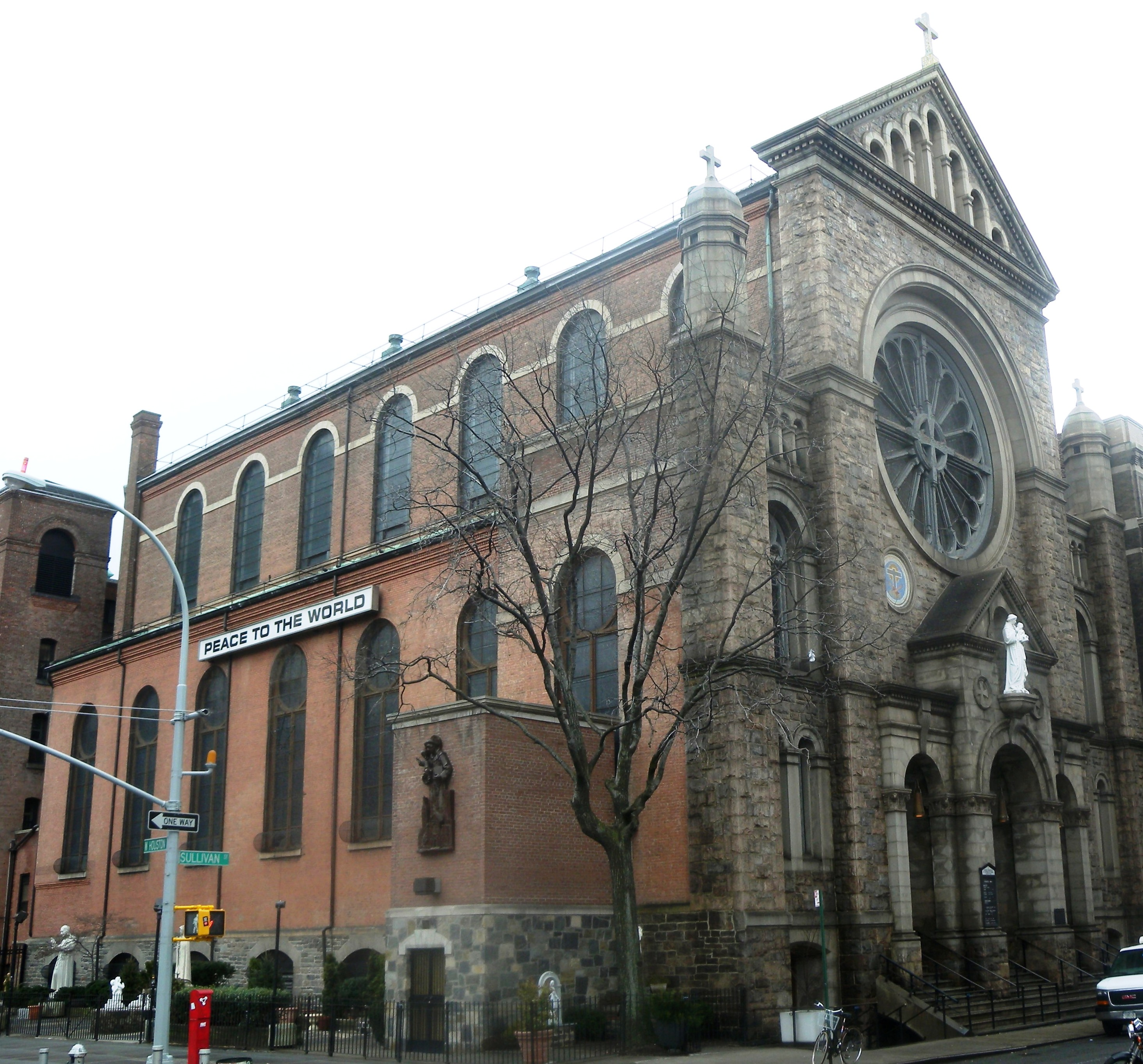 Looking southeast across Houston at St Anthony's on a cloudy morning.